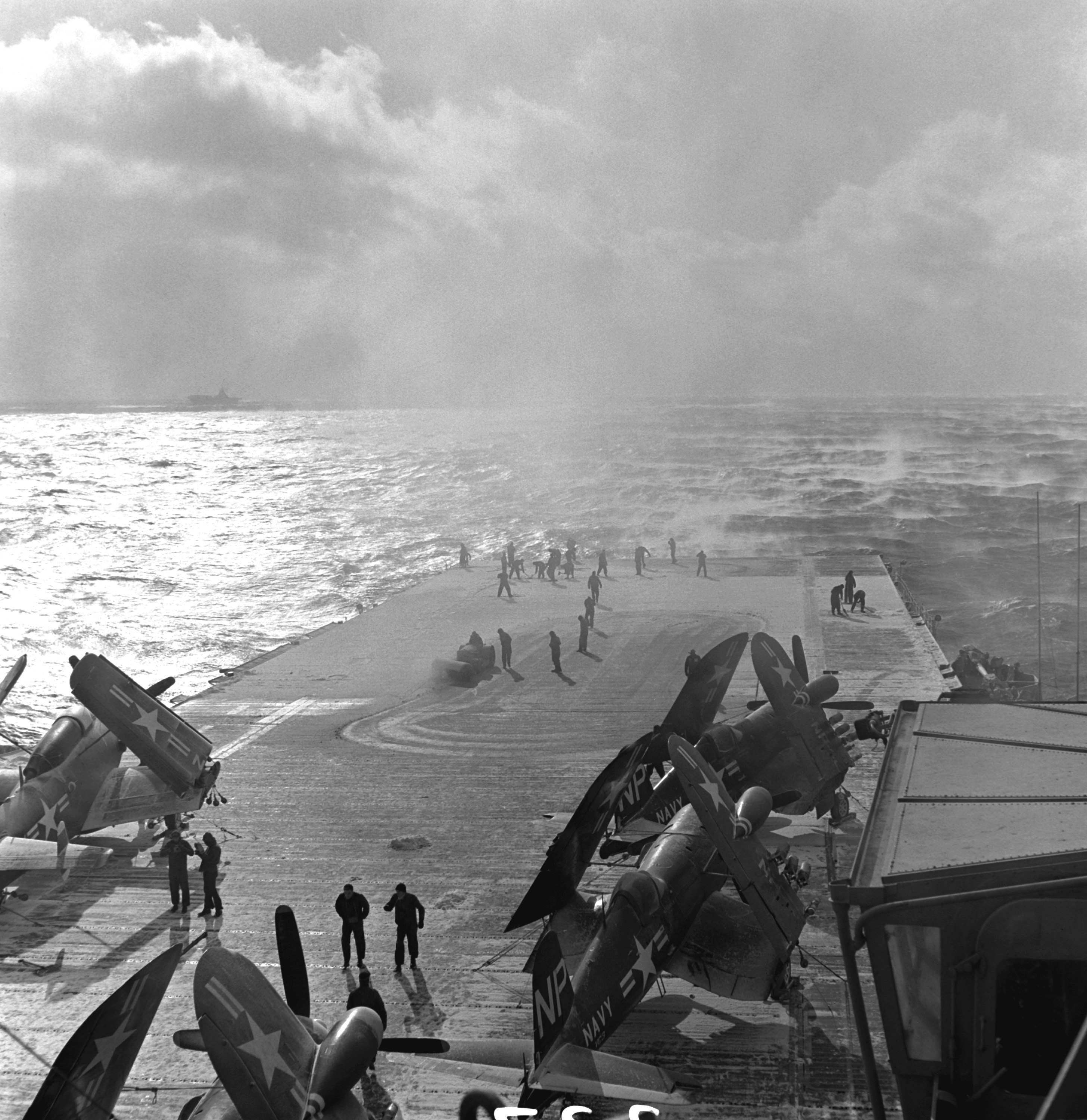 U.S. Navy sailors clean the flight deck of the aircraft carrier USS Oriskany (CVA-34) from snow off Korea, on 10 February 1953. On the starboard side are three Vought F4U-5N Corsair fighters of composite squadron VC-3 Det.G Blue Nemesis. On the port side sits a Douglas AD-3W Skyraider of VC-11 Det.G.